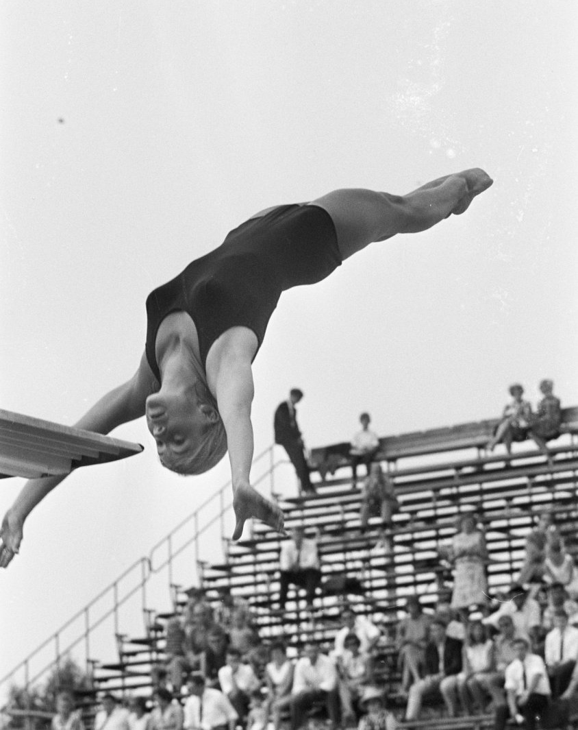 Tamara Fedosova-Pogozheva-Safonova, European championships